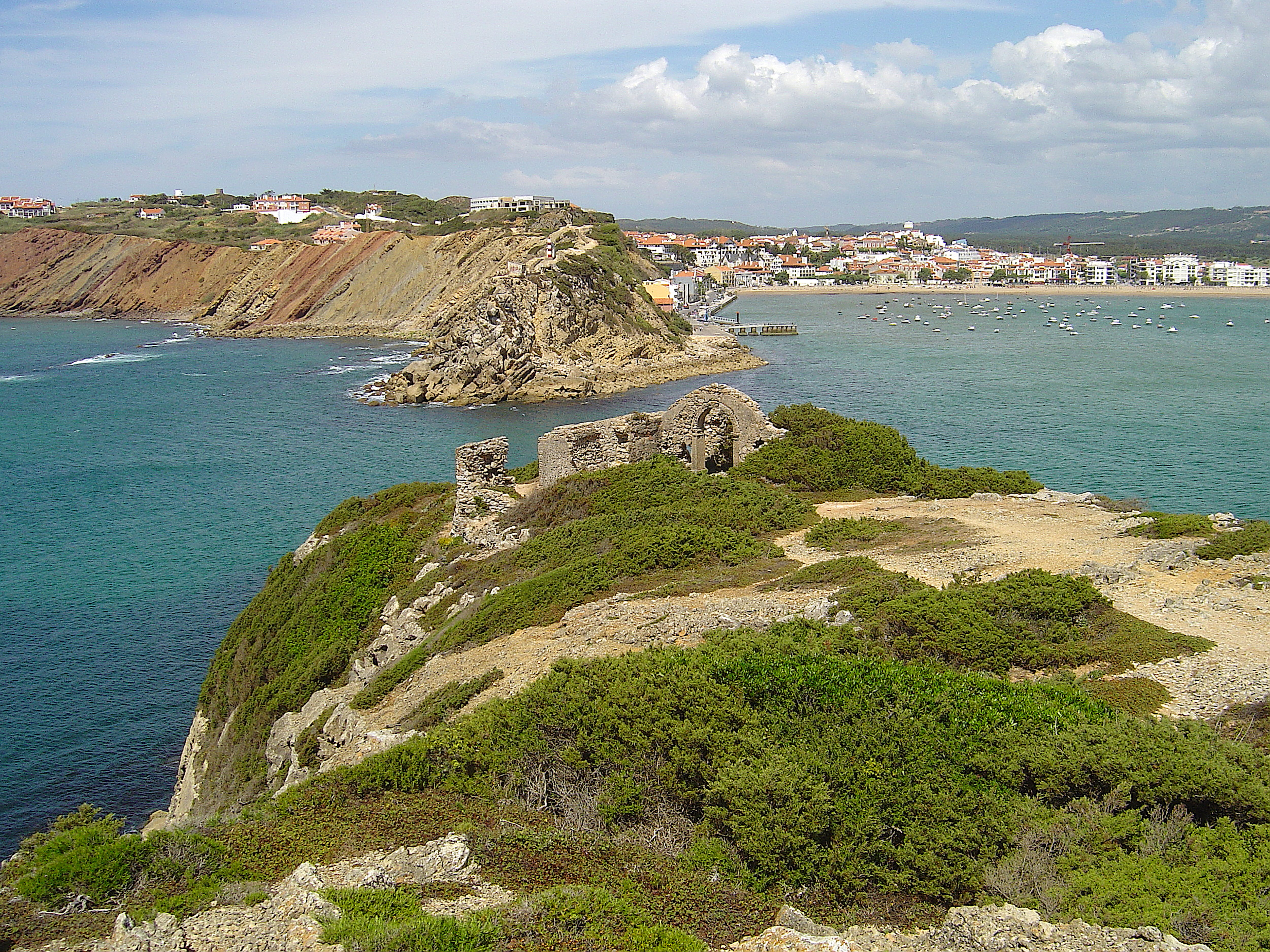 See where this picture was taken. [?]